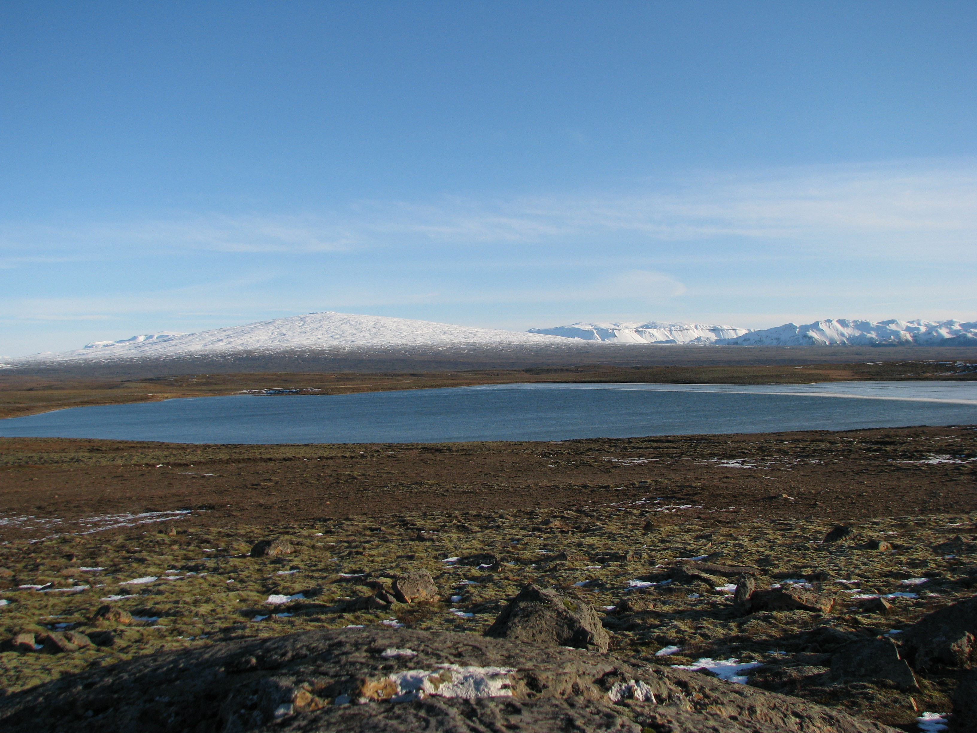 Uxavatn, a small lake in Iceland.